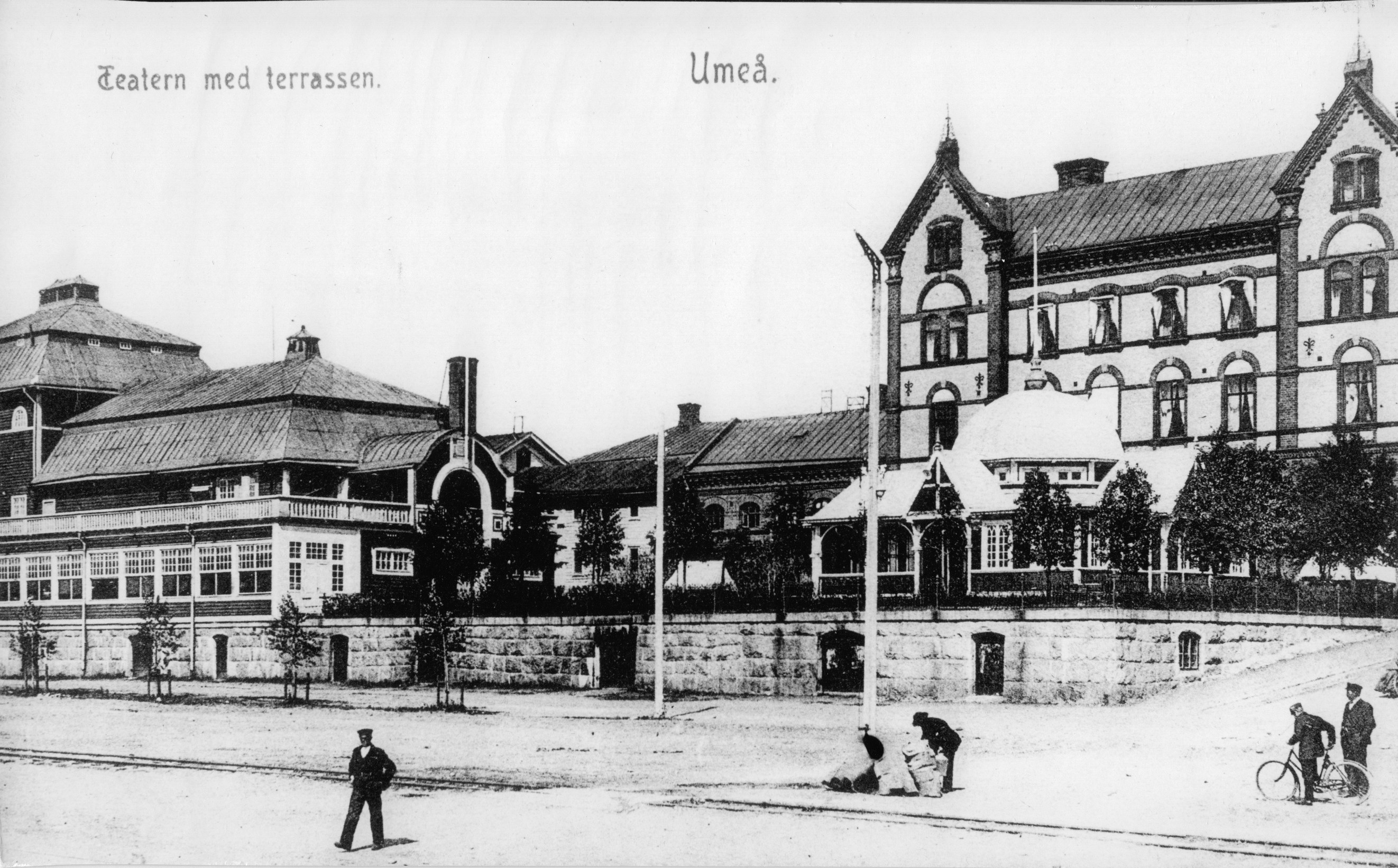 The theater, on the left, which burned in 1913